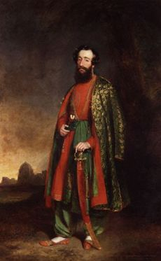 Sir Herbert Benjamin Edwardes, DCL, KCSI, KCB (1819-1868), dressed as an Indian nobleman, by Henry Moseley, c.1850, oil on canvas. National Portrait Gallery, London, (NPG 1391). Bequeathed by the sitter's widow, Emma (née Sidney), Lady Edwardes, 1905